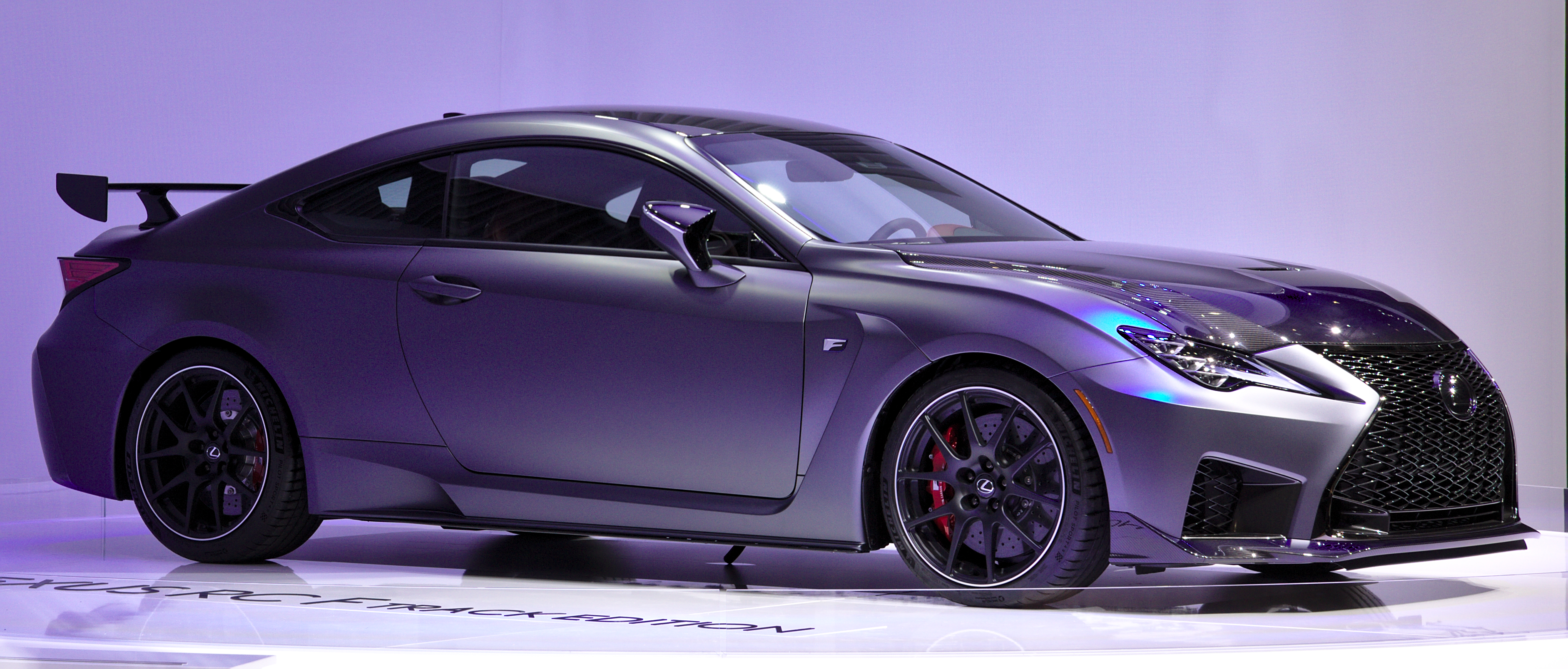 Lexus RC-F Track Edition at Geneva Motor Show 2019